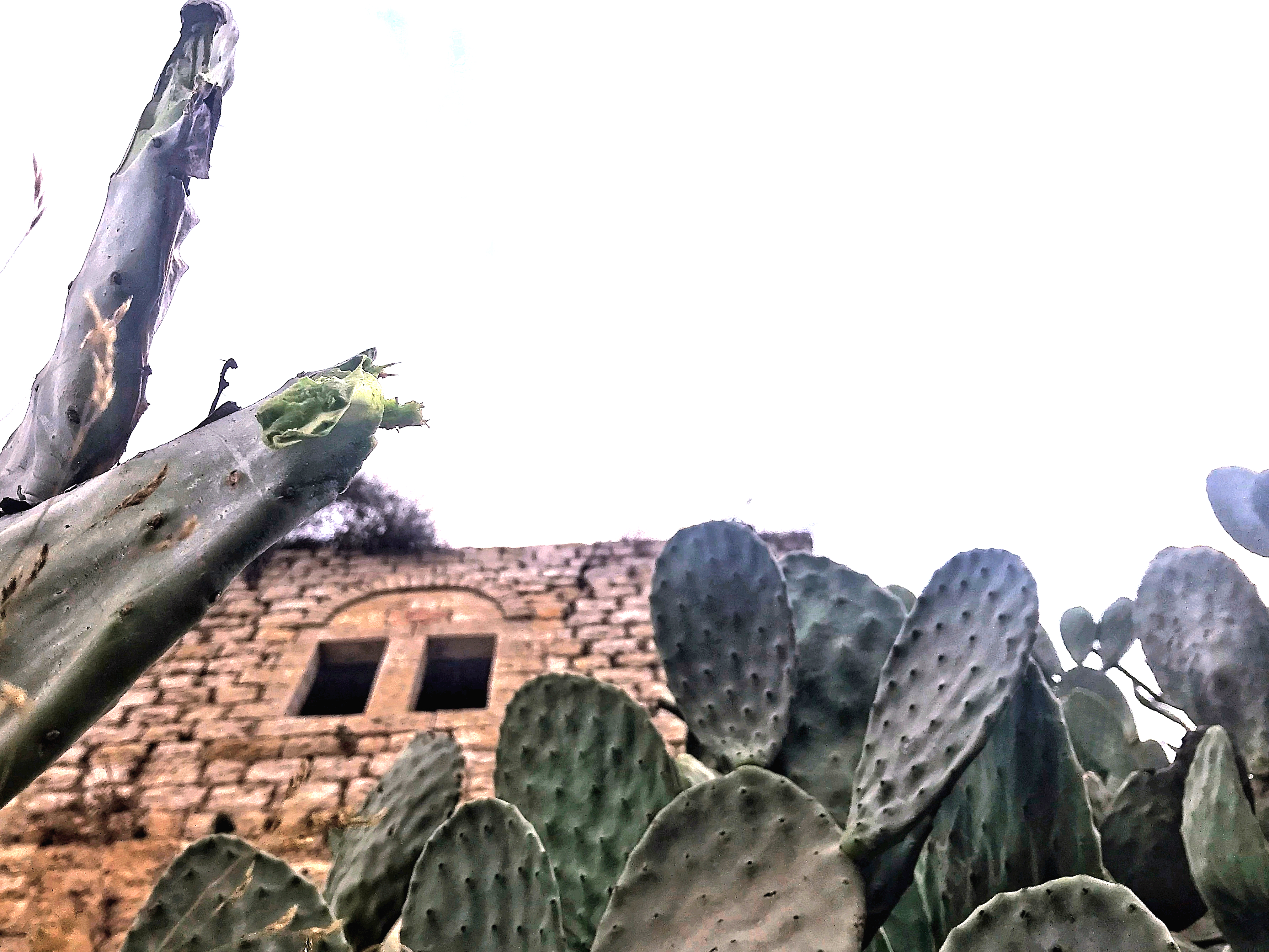 Jerusalem, Lifta, cactus